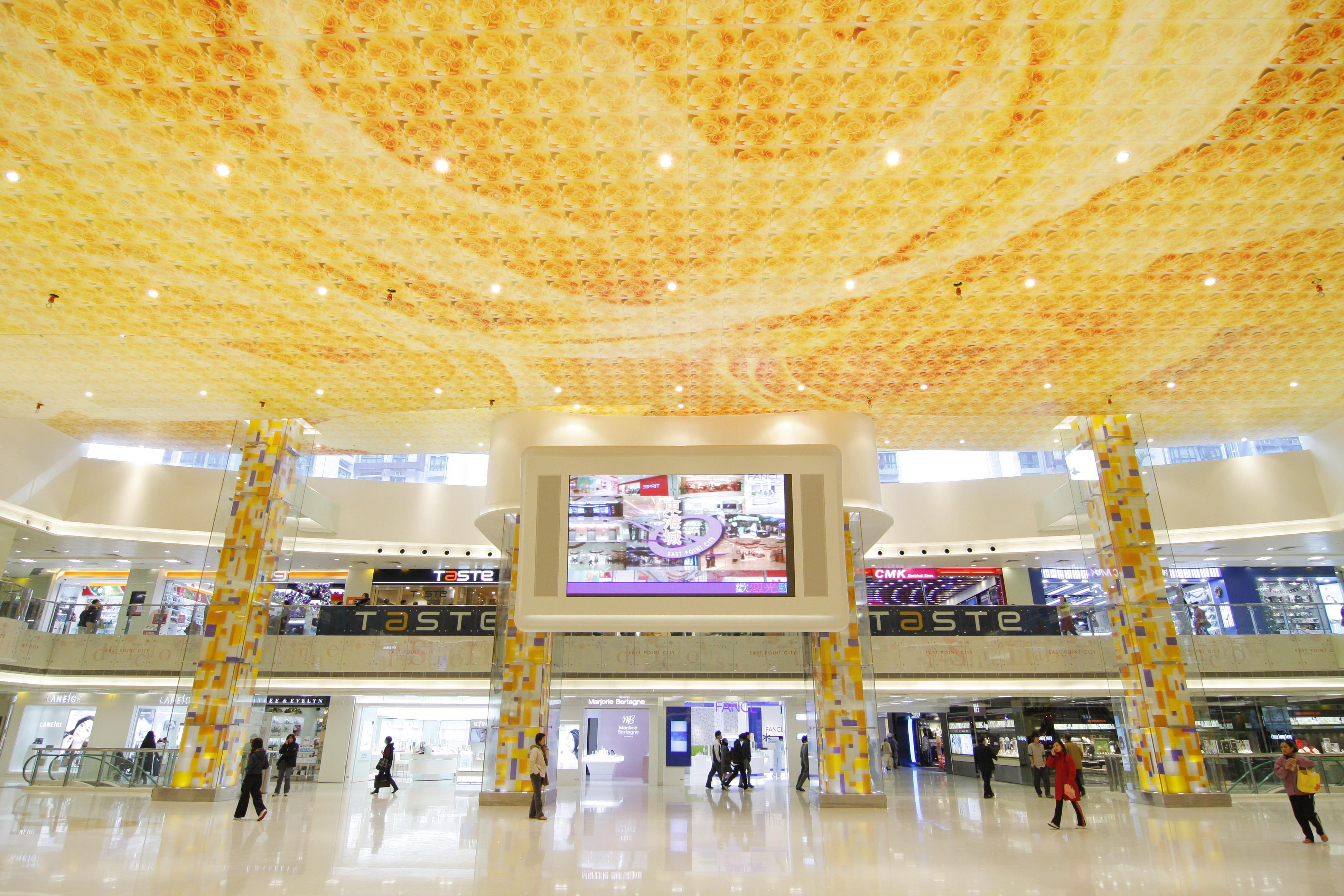 2014年東港城一樓展覽場